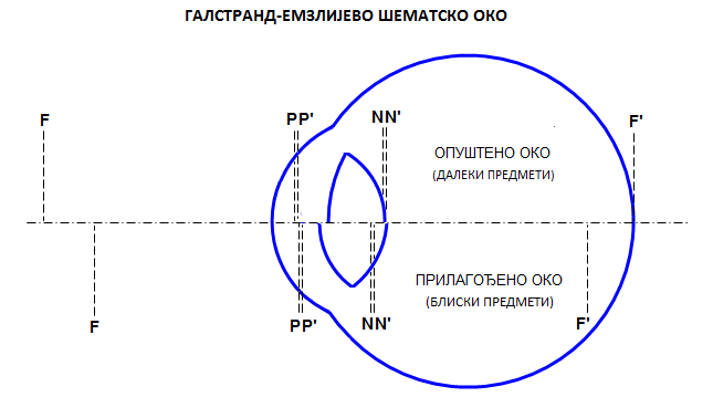 ОПУШТЕНО И ПРИЛАГОЂЕНО ОКО